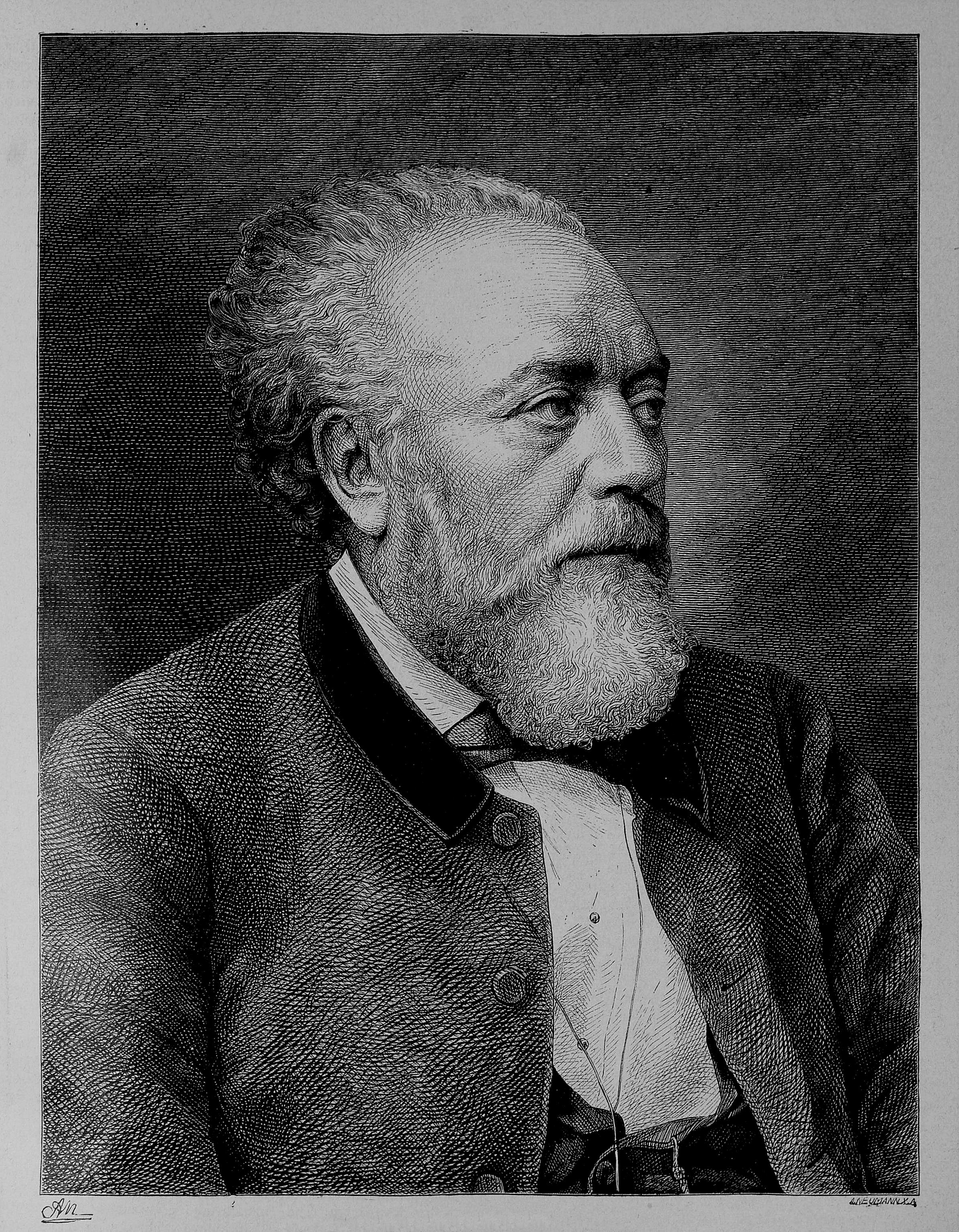 caption: " Berthold Auerbach. Nach einer Photographie auf Holz gezeichnet von Adolf Neumann"